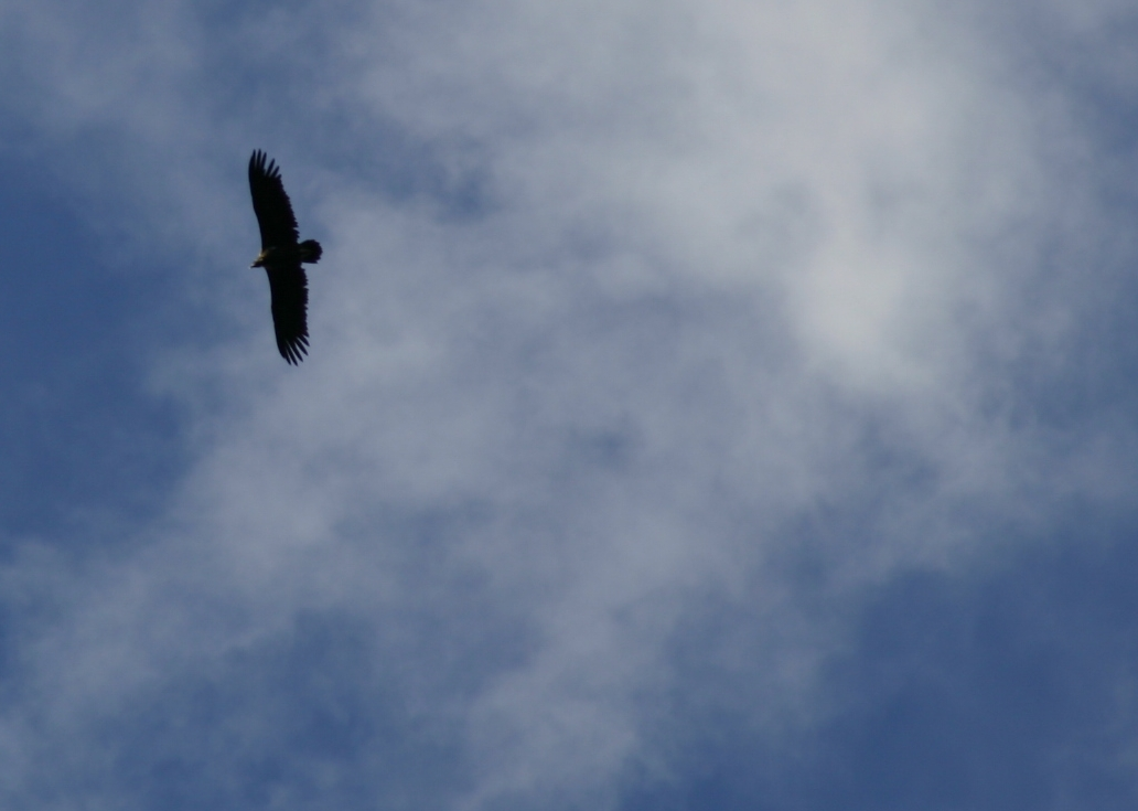 Be careful. It is Probably a Black Vulture, yet it maybe also an Imperial Eagle. It has been taken in the Sierra de Guadarrama, Spain. 13-09-2005.